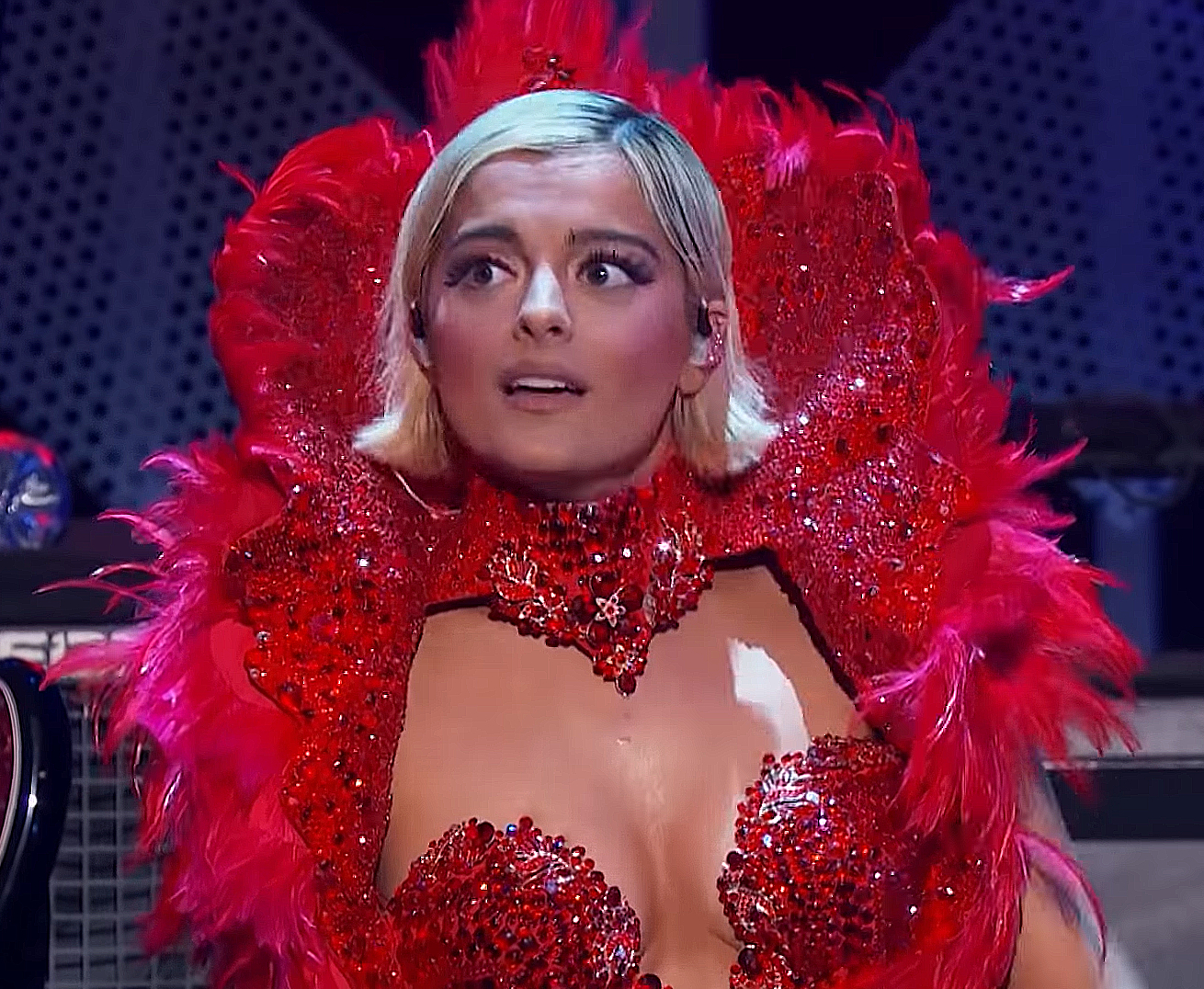 Bebe Rexha performs at Z100's Jingle Ball 2018 at Madison Square Garden on December 7, 2018 in New York City.